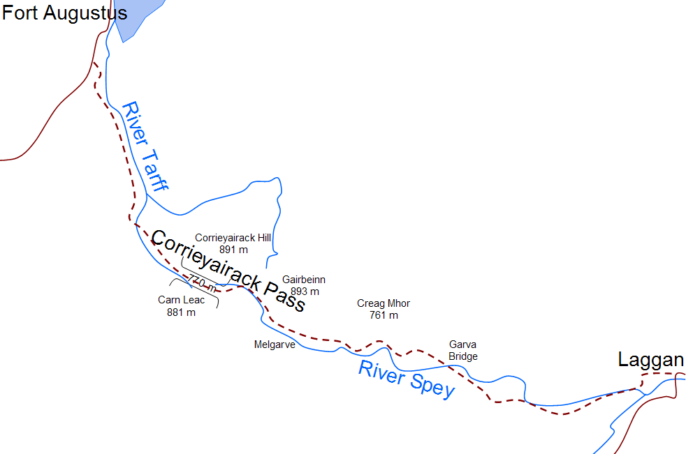 Outline map of Corrieyairack Pass